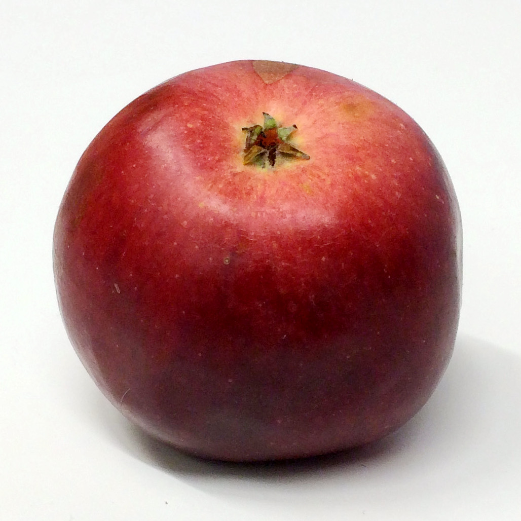 Apple of the cultivar Alice, photographed in conjunction with the Apple Festival at Nordiska museet, Stockholm, Sweden in September 2014.